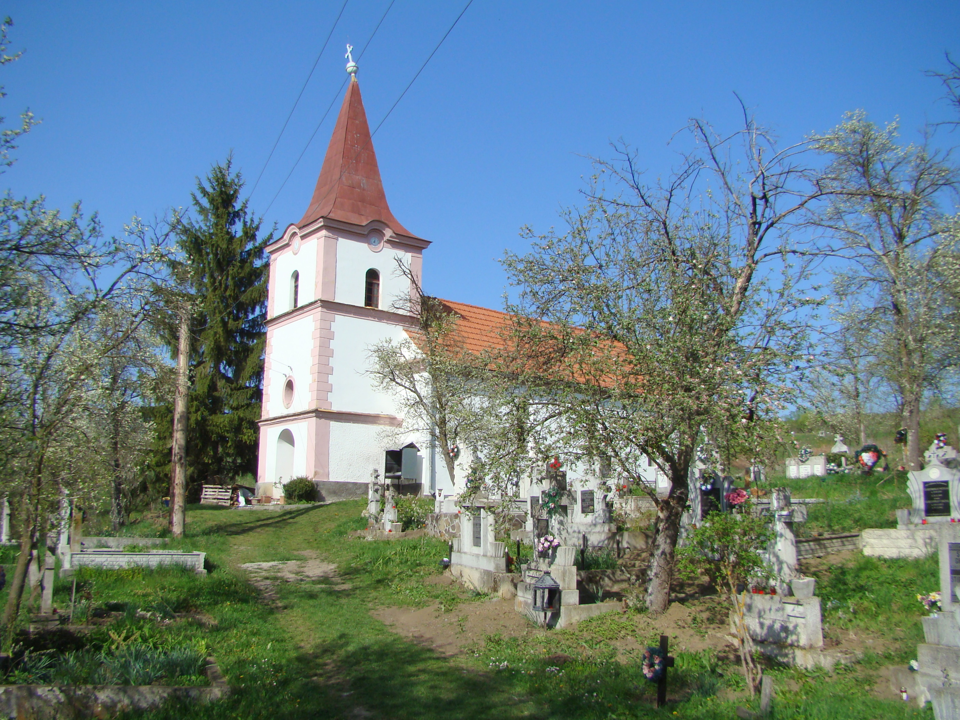 Orthodox church in Feleag, Mureș county, Romania